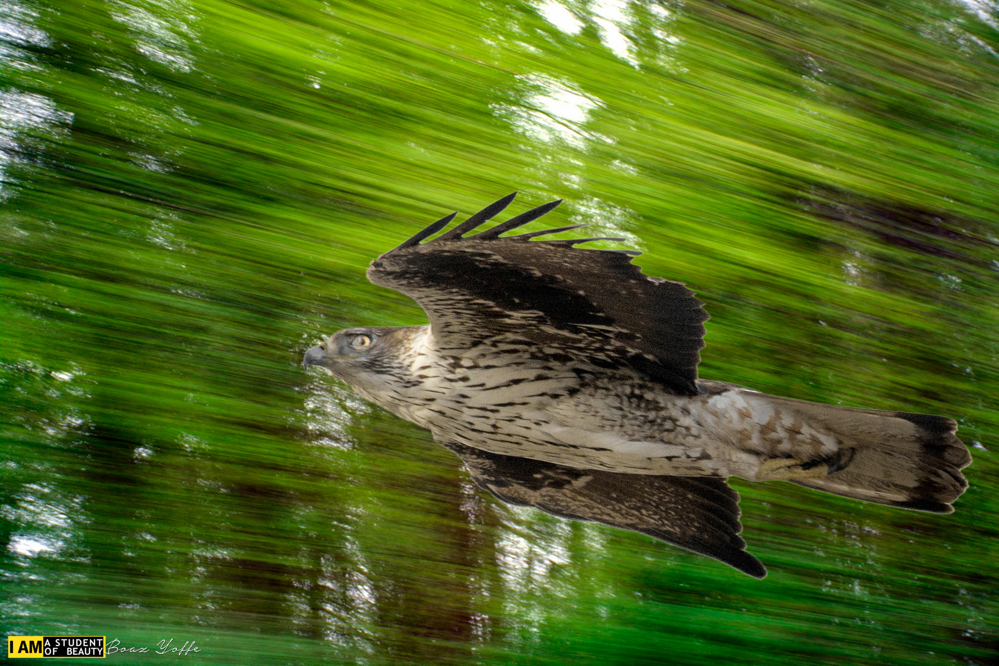 500px provided description: Falcon in Flight, Ok, I admit, the woods are french, but the falcon was shot in Israel. [#Wood ,#Flight ,#Poster ]